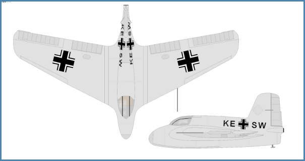 Messerschmitt Me 163a V4 KE+SW